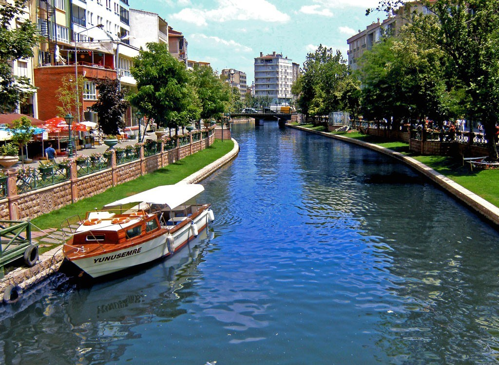 Eskisehir City River